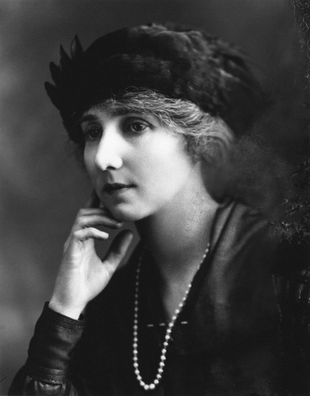 Noël Leslie, Countess of Rothes